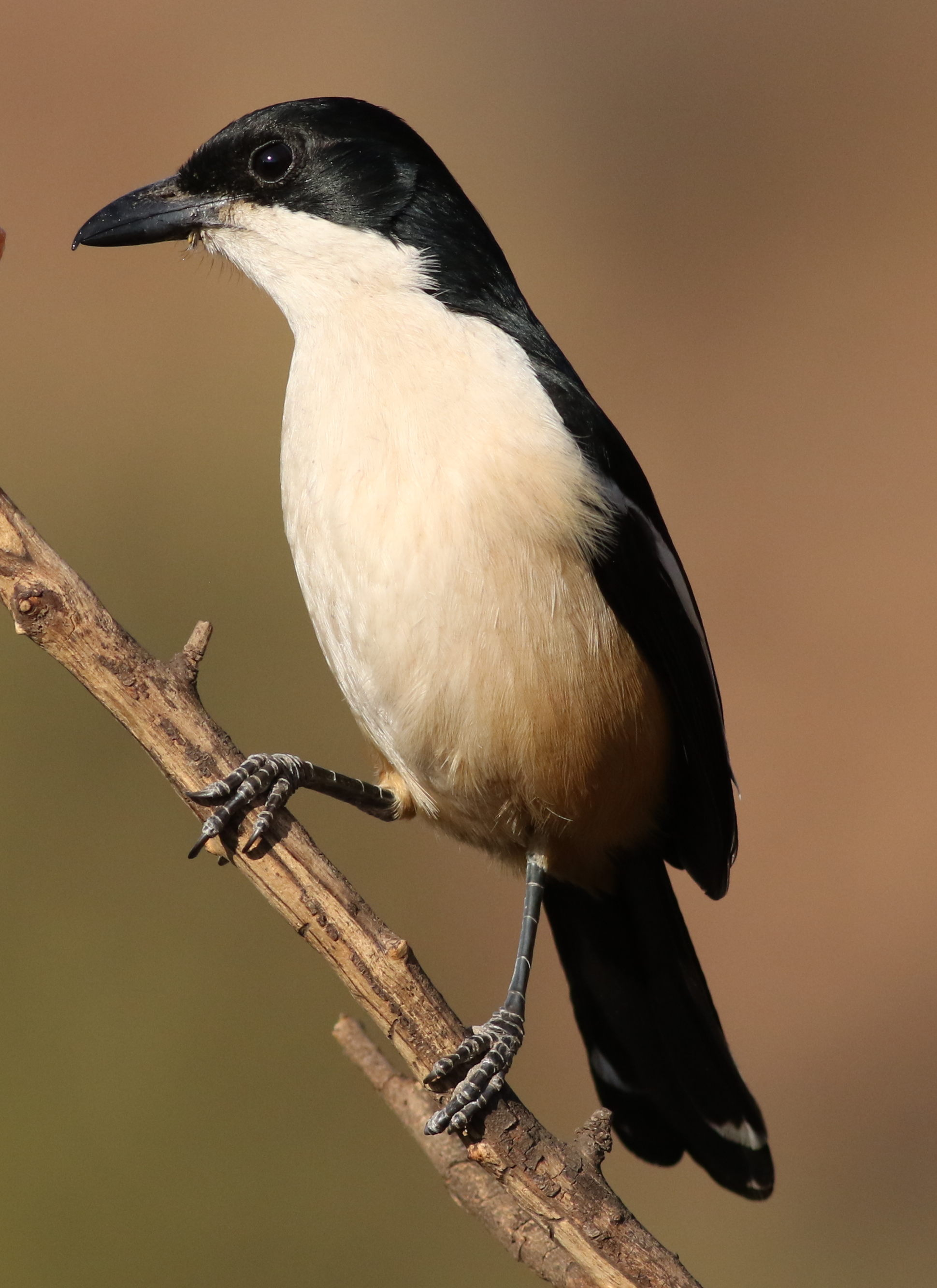 Southern Boubou, Laniarius ferrugineus, at Walter Sisulu National Botanical Garden, Gauteng, South Africa